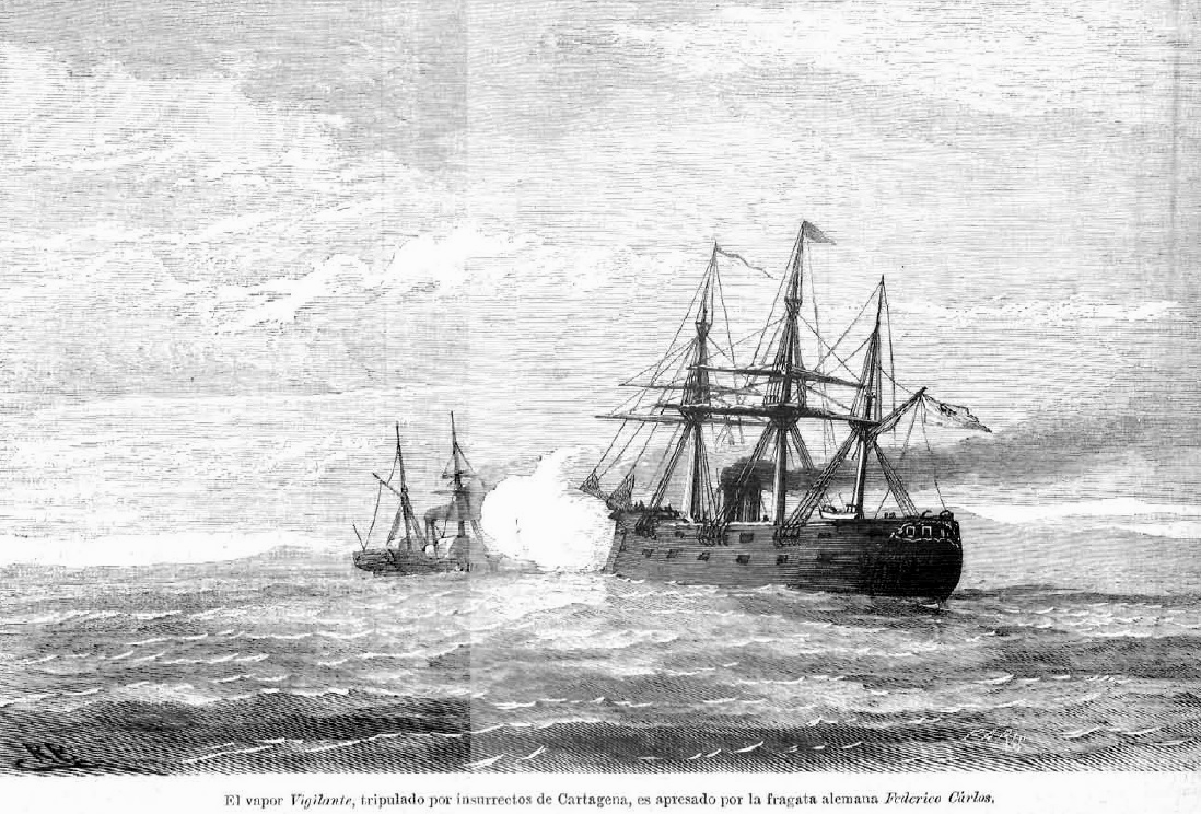 The steamship Vigilante, manned by the insurgents of Cartagena, is captured by the German frigate Friedrich Carl.